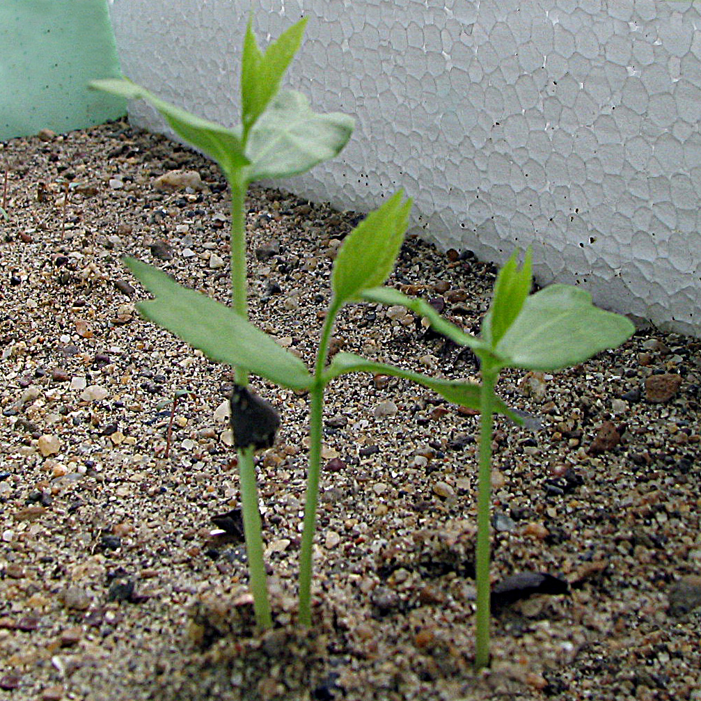 Celtis occidentalis seedlings